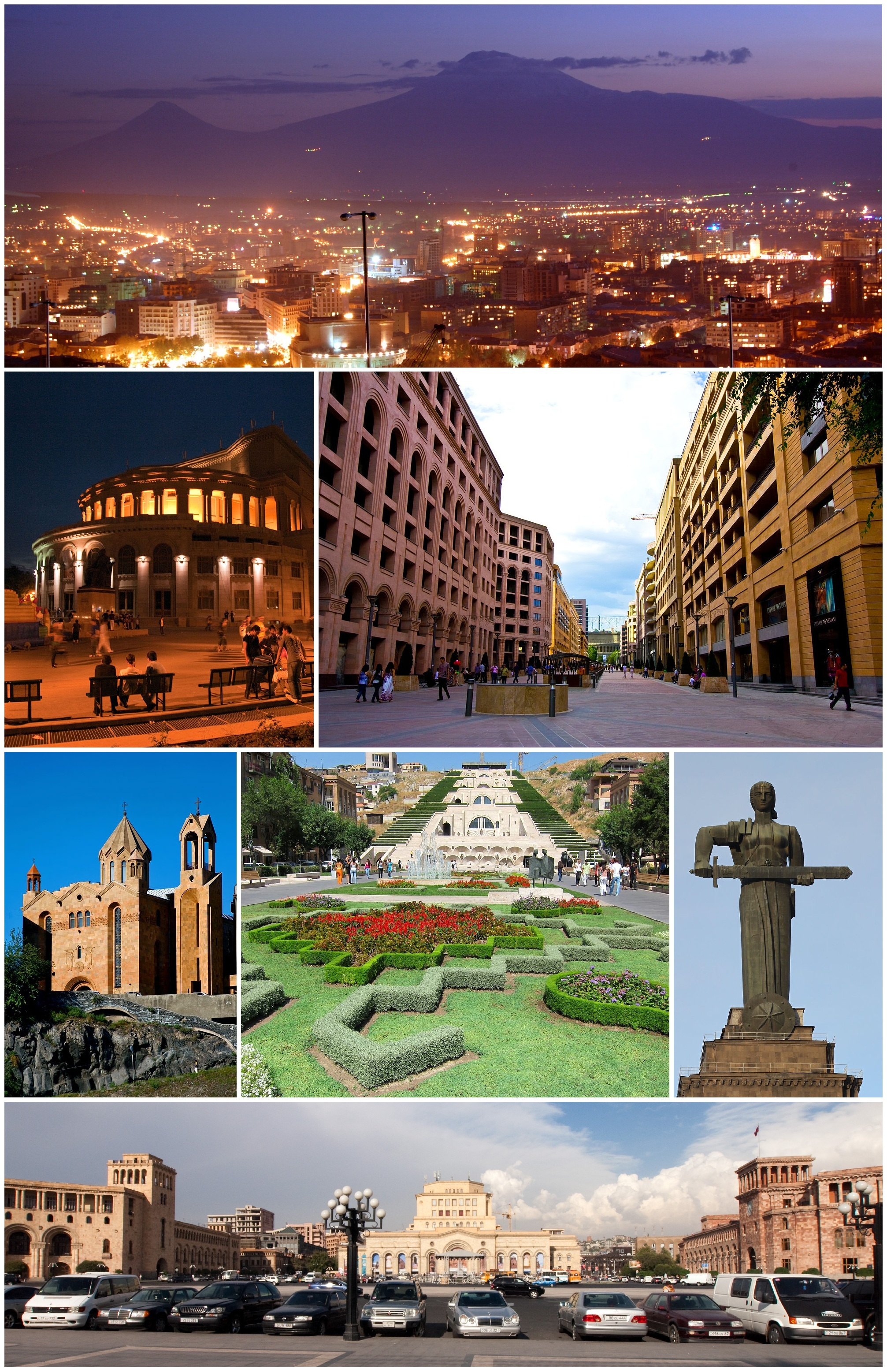 Yerevan landmarks, Armneia.